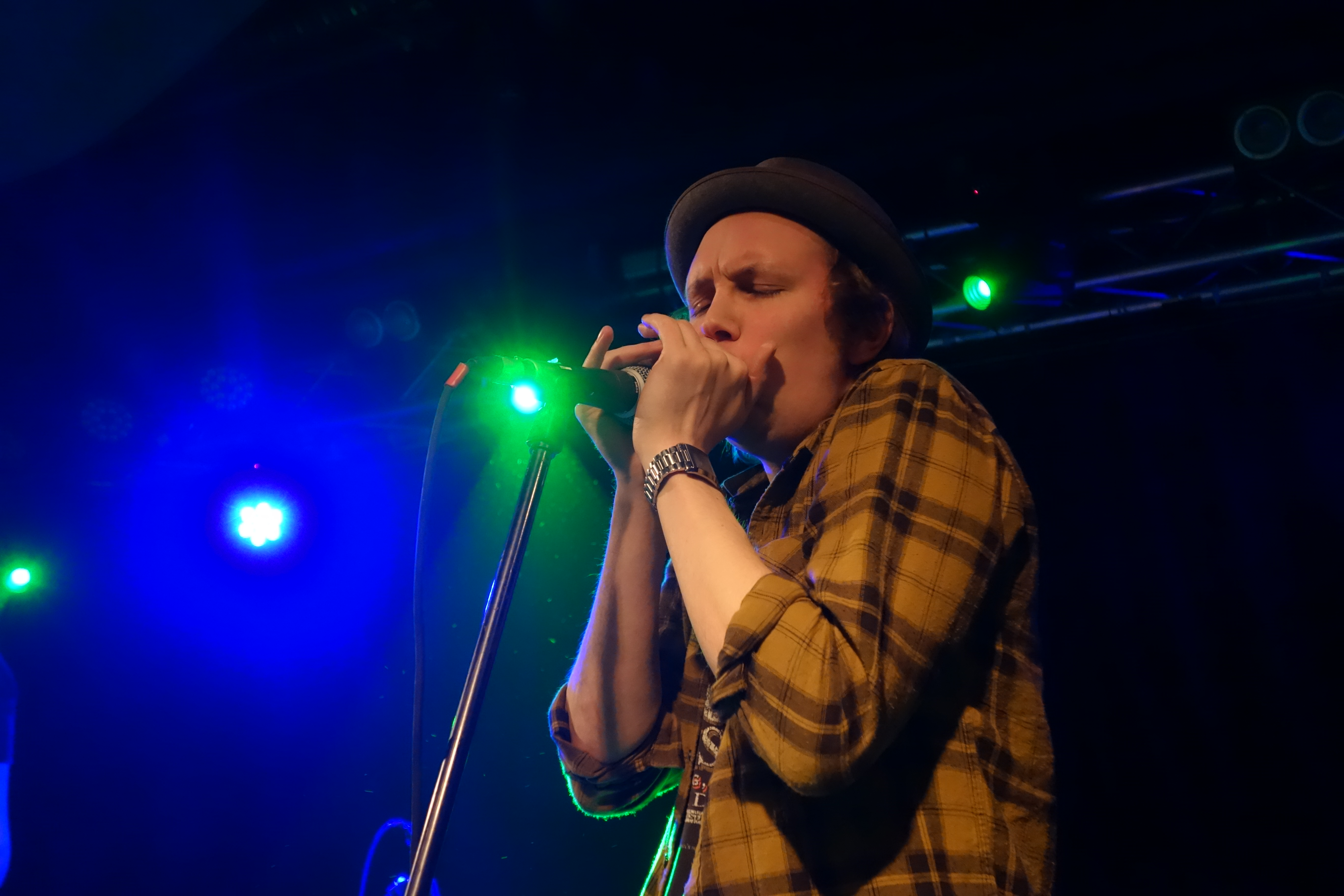 Danny McGuinness of The Wakes live at "Das Bett", a club in Frankfurt April 2017